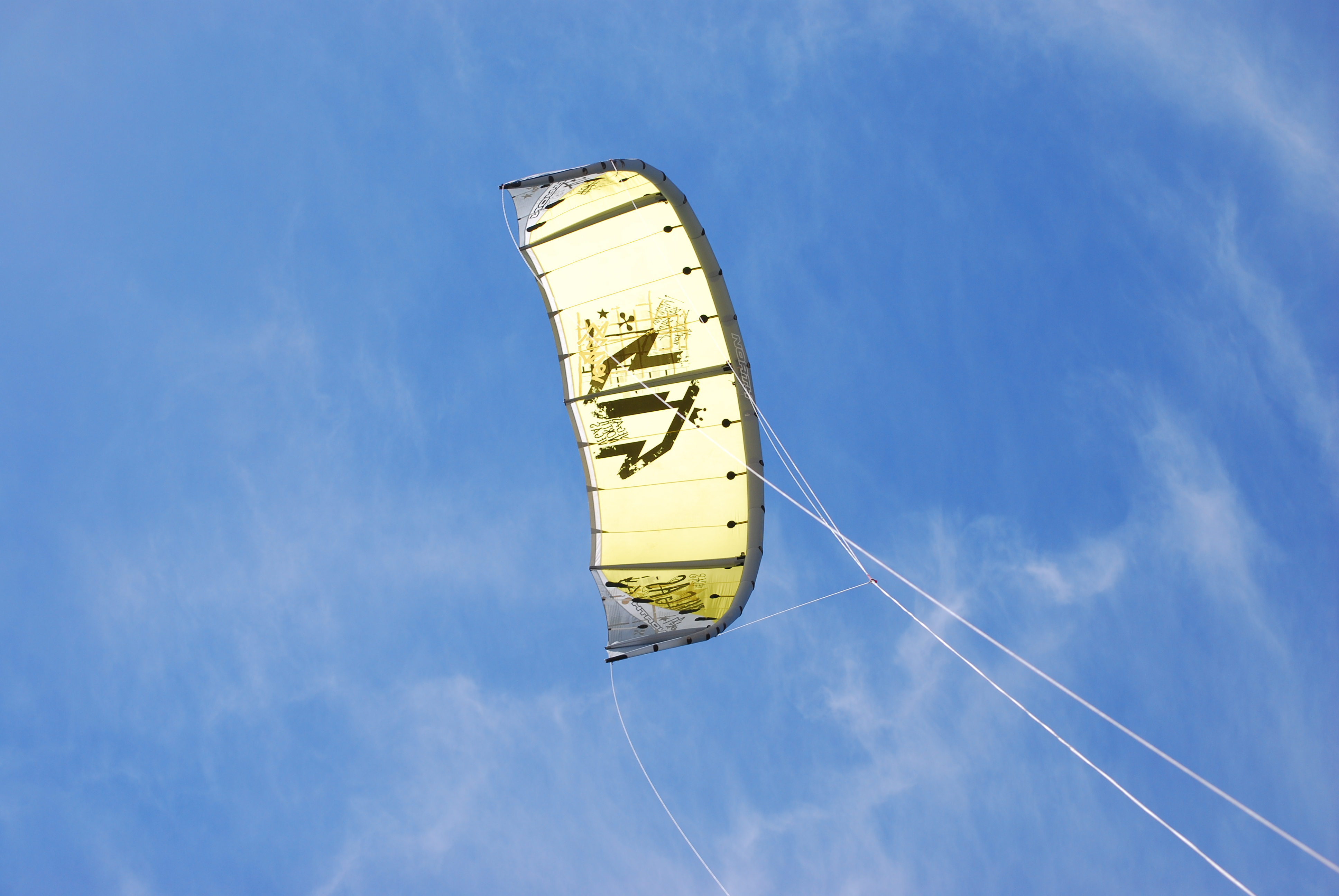 Kitesurf at Dakhla